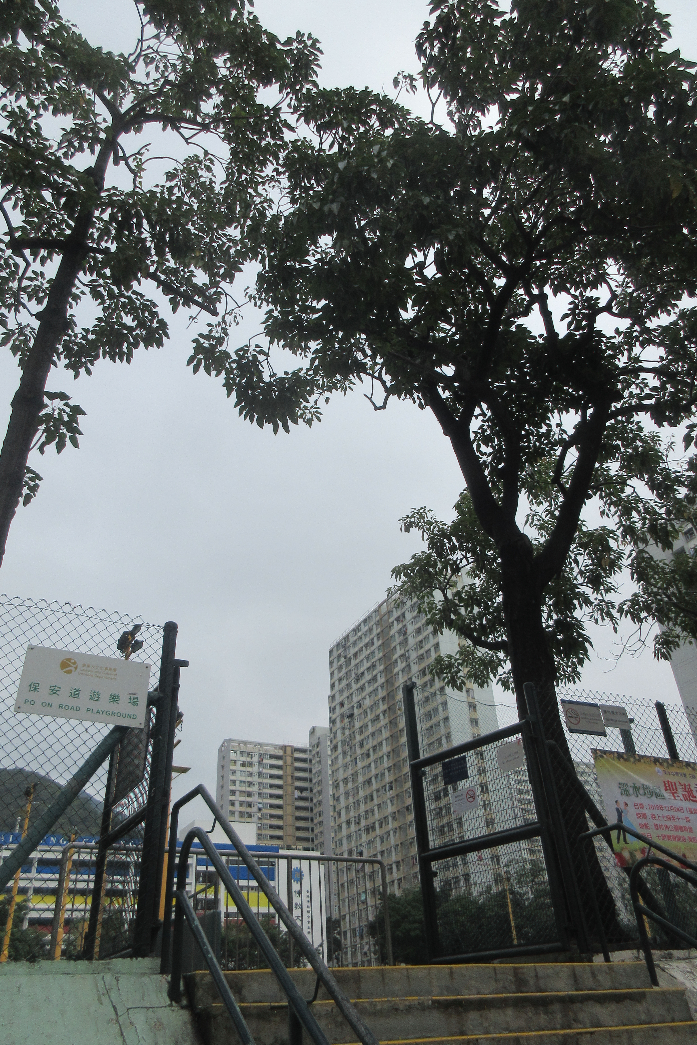 HK 深水埗 Sham Shui Po District in December 2018